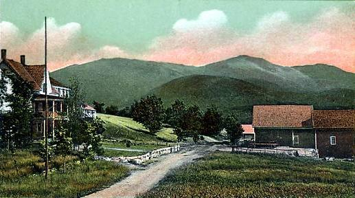 Presidential Range in c. 1905, Jefferson, NH; from an old postcard.